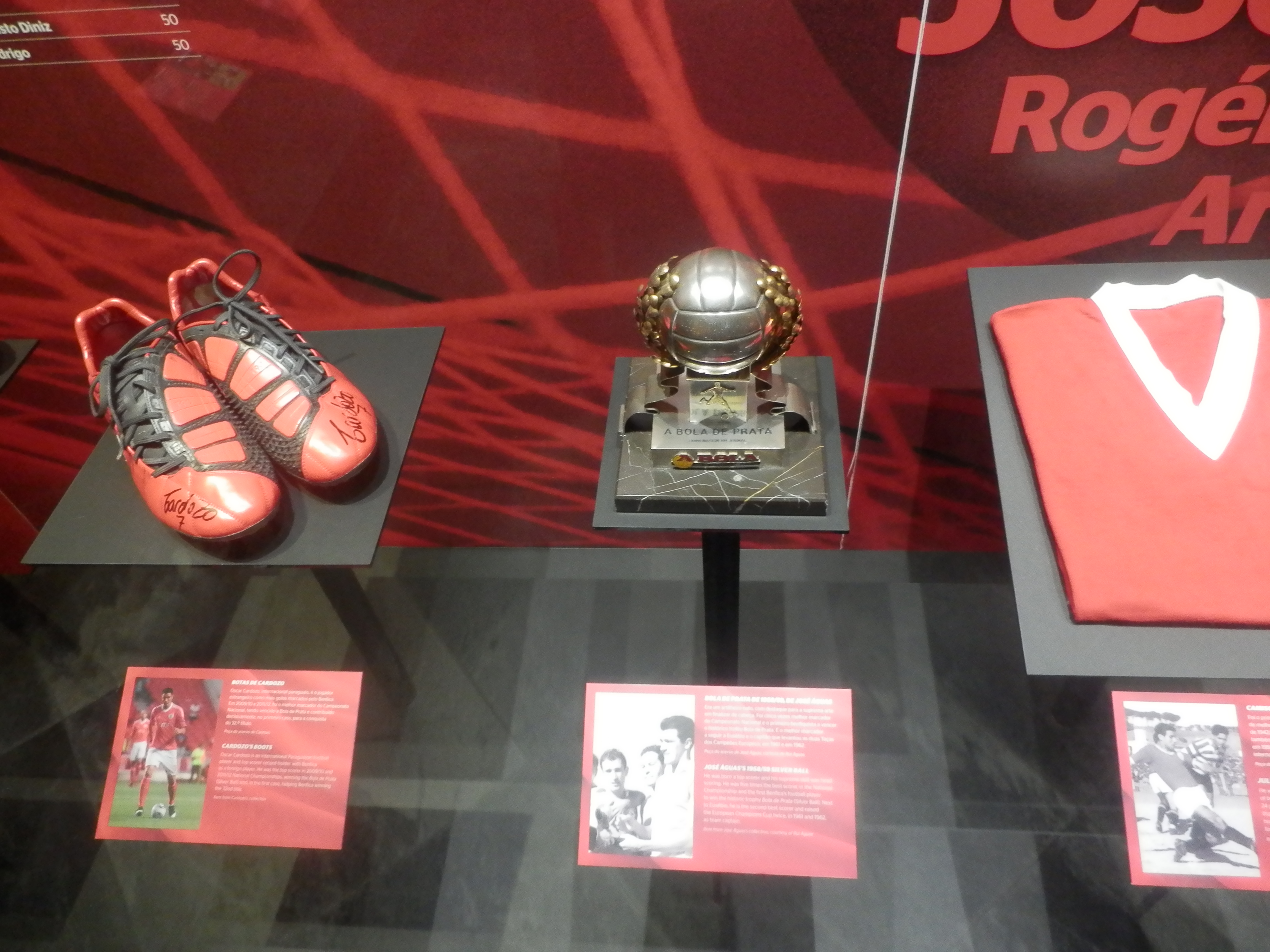 José Aguas won five Bolas de Prata. Adjacent are Oscar Cardozo boots